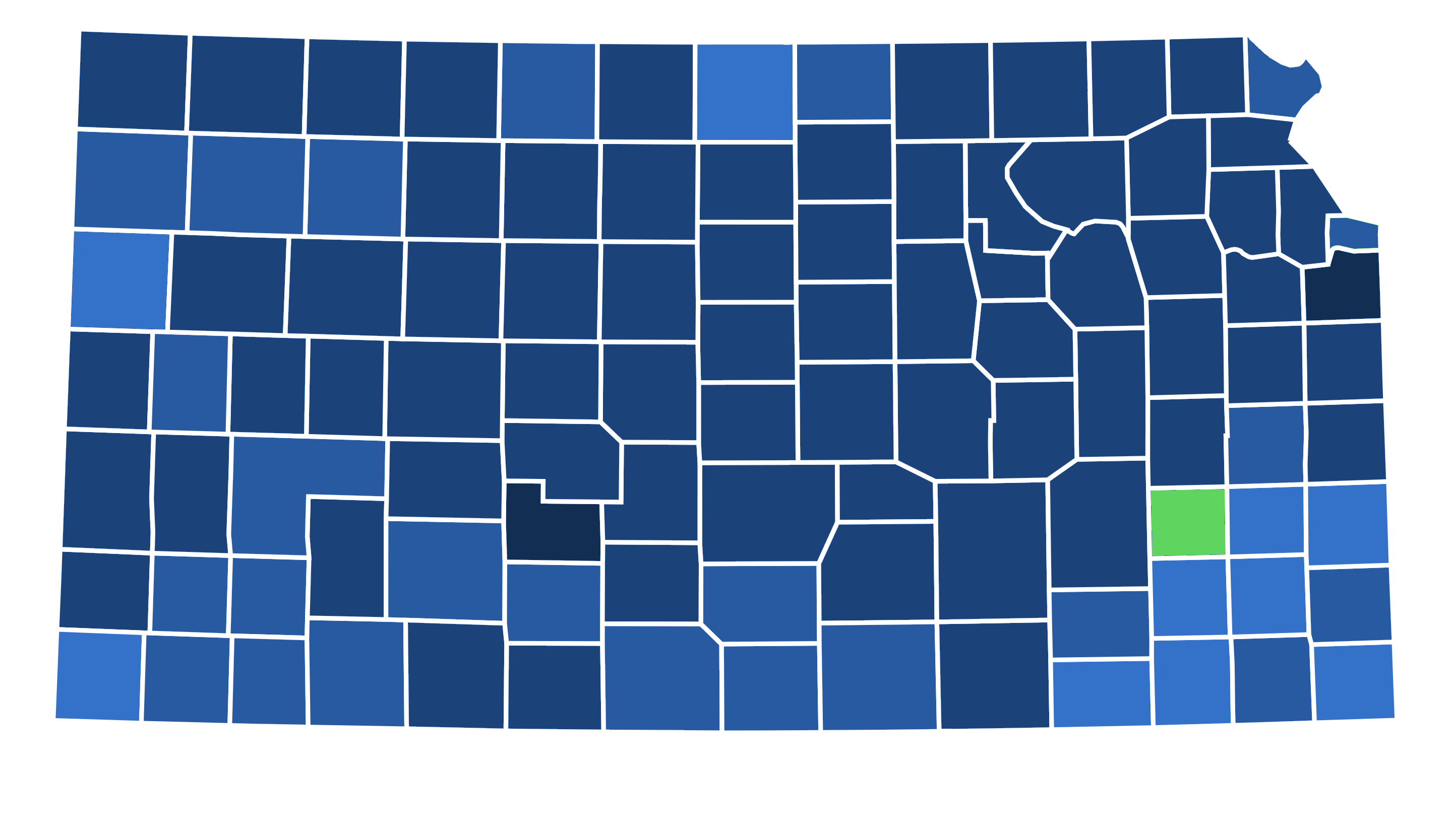 County-by-county results of the Democratic primary for the 2020 United States Senate election in Kansas